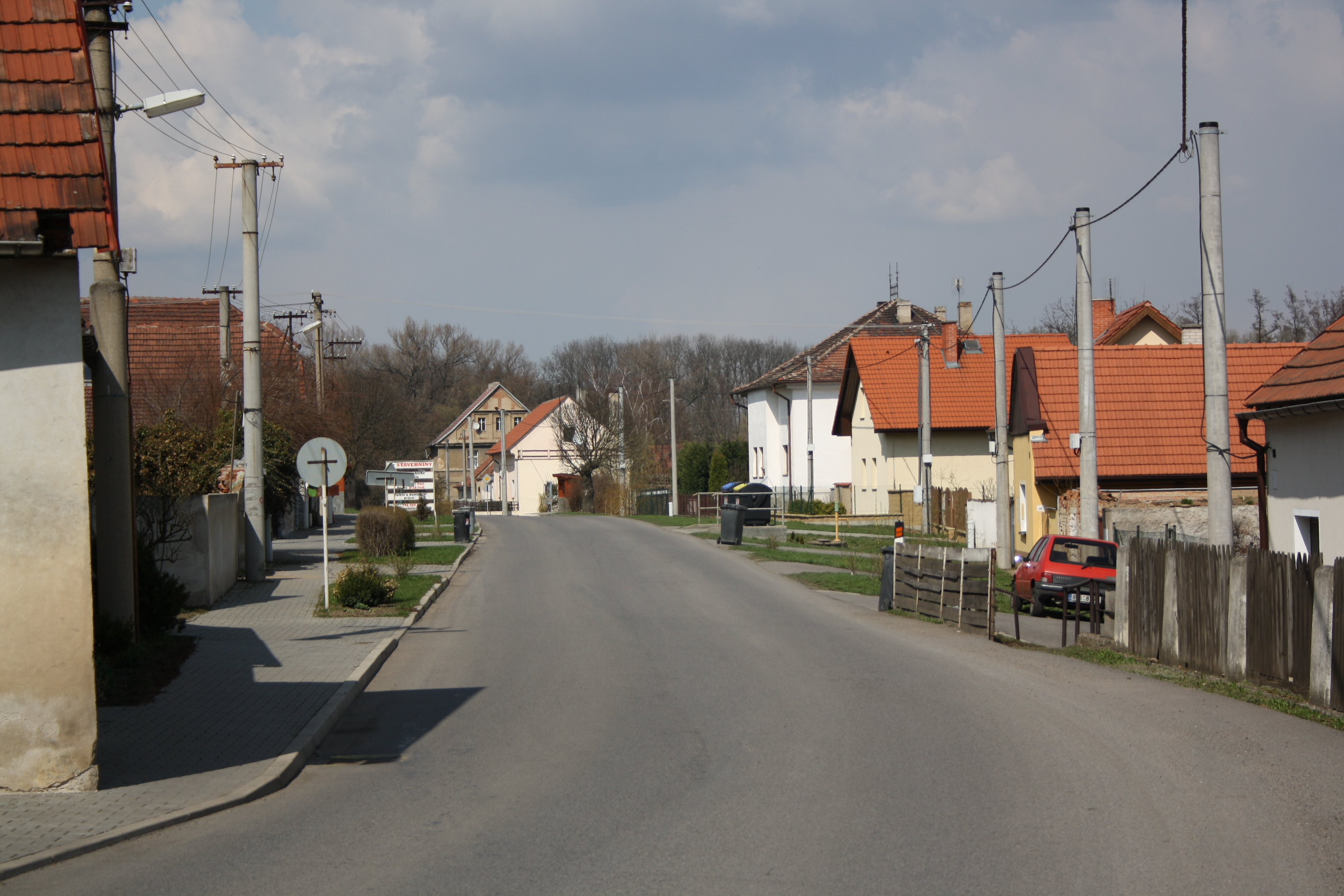 Brozánky village, part of the town of Hořín, Mělník District. Central Bohemian Region, CZ